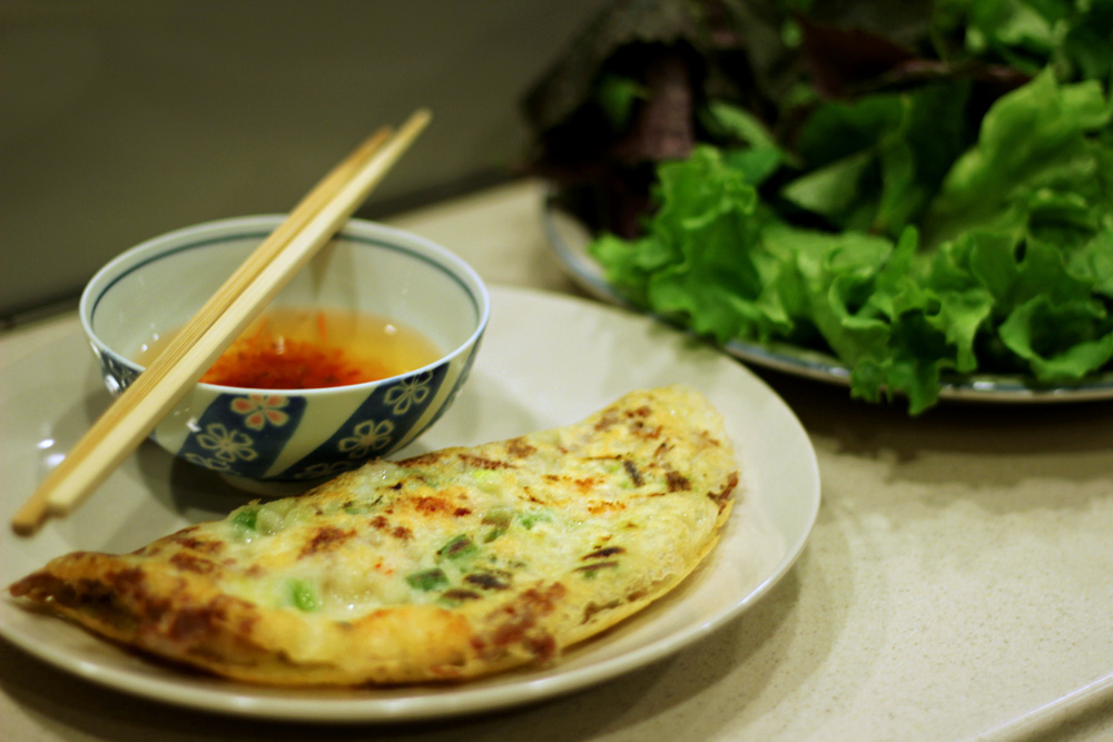 Bánh xèo pancake with nước mắm sauce